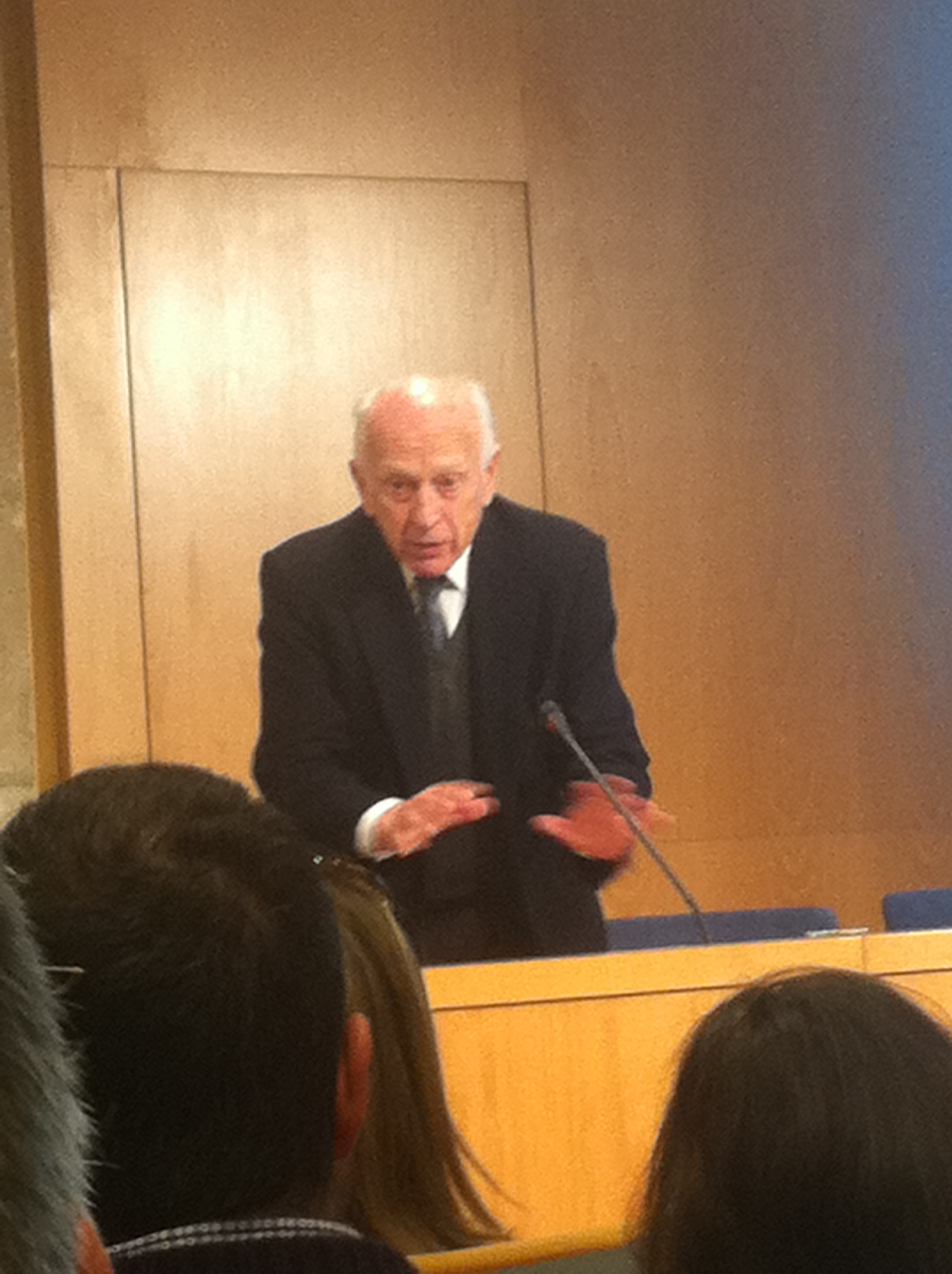 Presentation of the new Museum Plan of Catalonia 2012-2020 by Joan Pluma and Ferran Mascarell